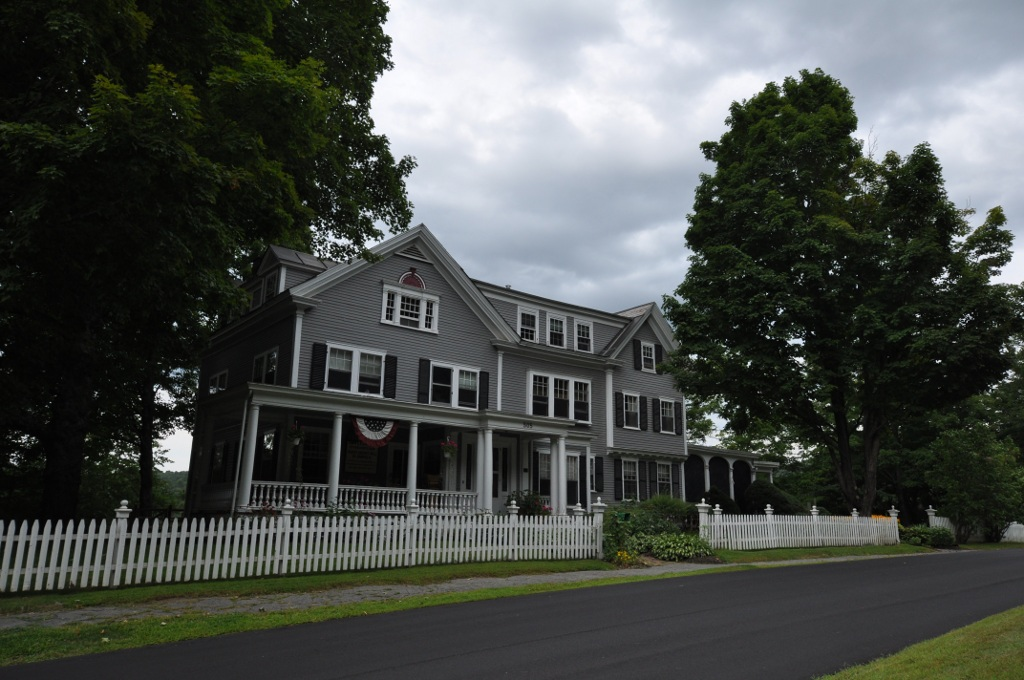 Dewey House, Hartford (Quechee), Vermont.